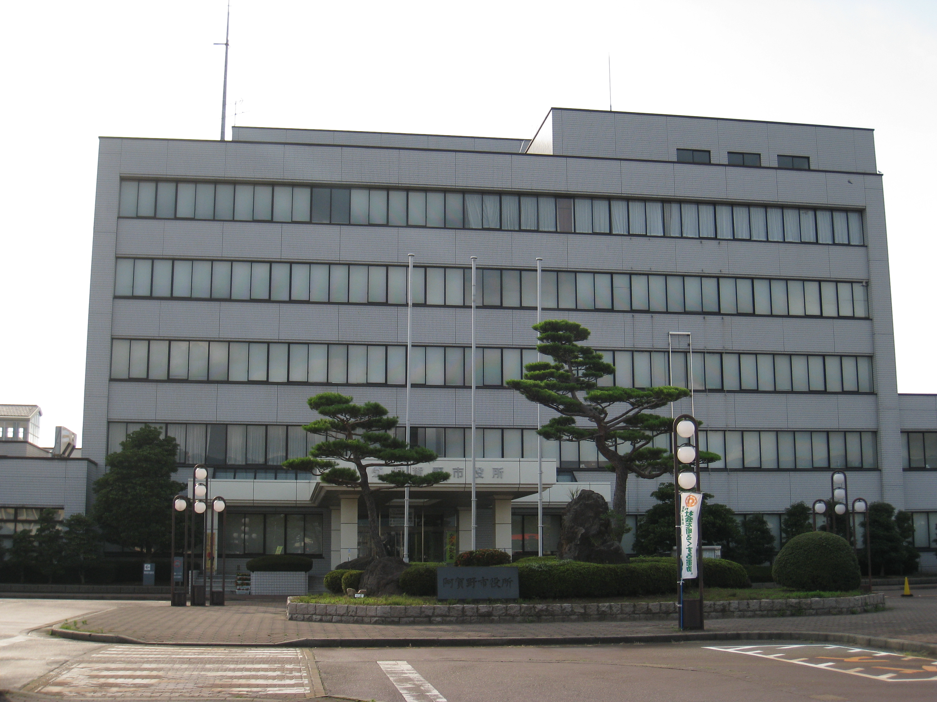 Agano Cityhall, Niigata-Pref, Japan